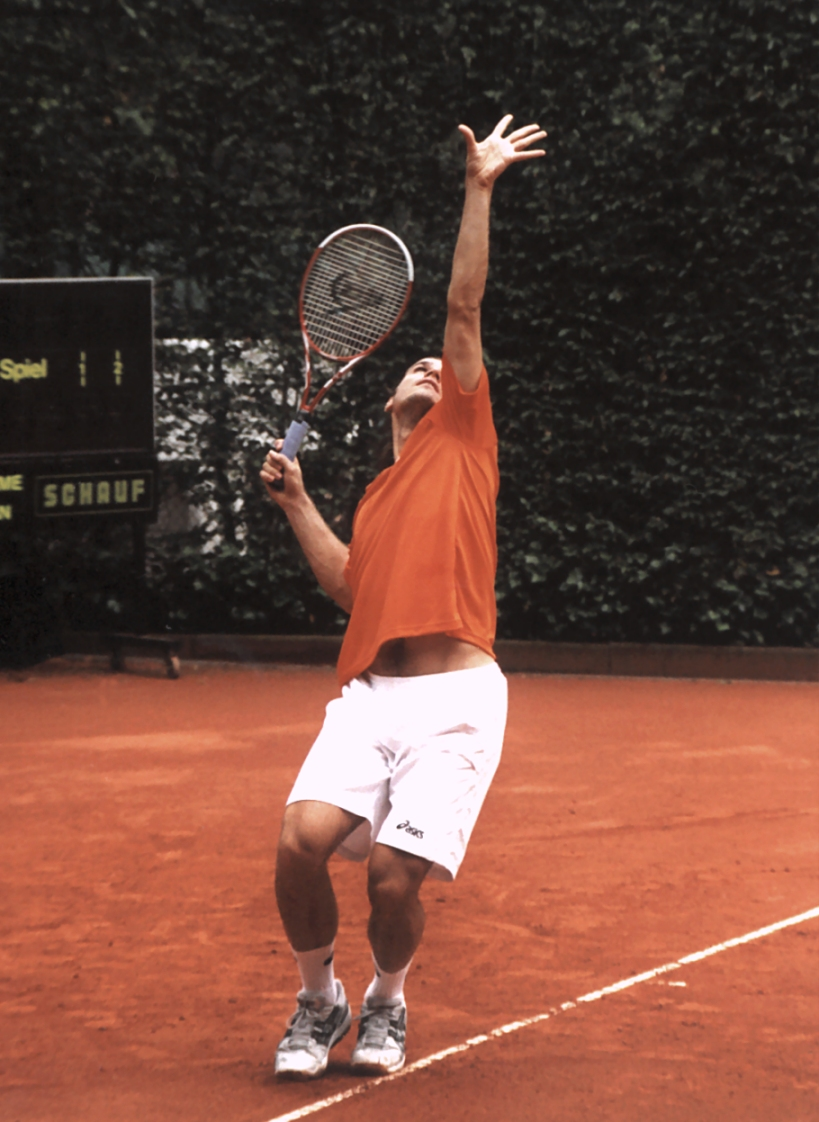 The German tennis player Tommy Haas at the public training for the World Team Cup in Düsseldorf, Germany, 2005.